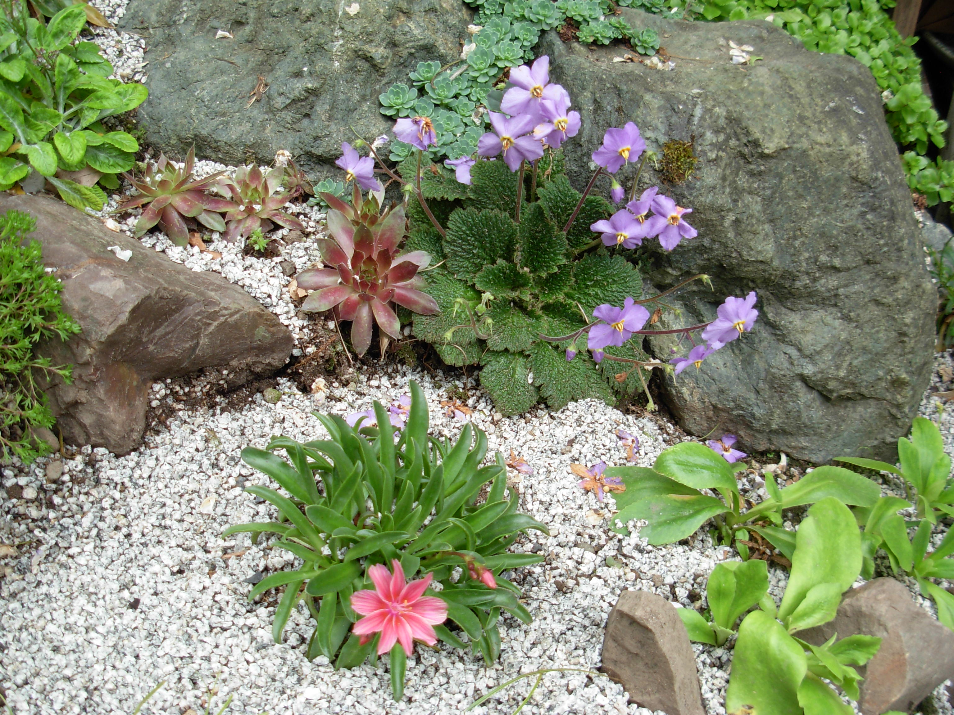 Lewisia in bloom Some form of Ramonda (we originally thought it was Haberlea) In the Gesneriaceae family Kingdom: Plantae Division: Magnoliophyta Class: Magnoliopsida Order: Lamiales Family: Gesneriaceae i060108 388